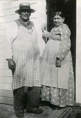 George Crum, inventor of the potato chip and his sister-in-law "Aunt Kate" Weeks at Moon's Lake House in Saratoga Springs NY.